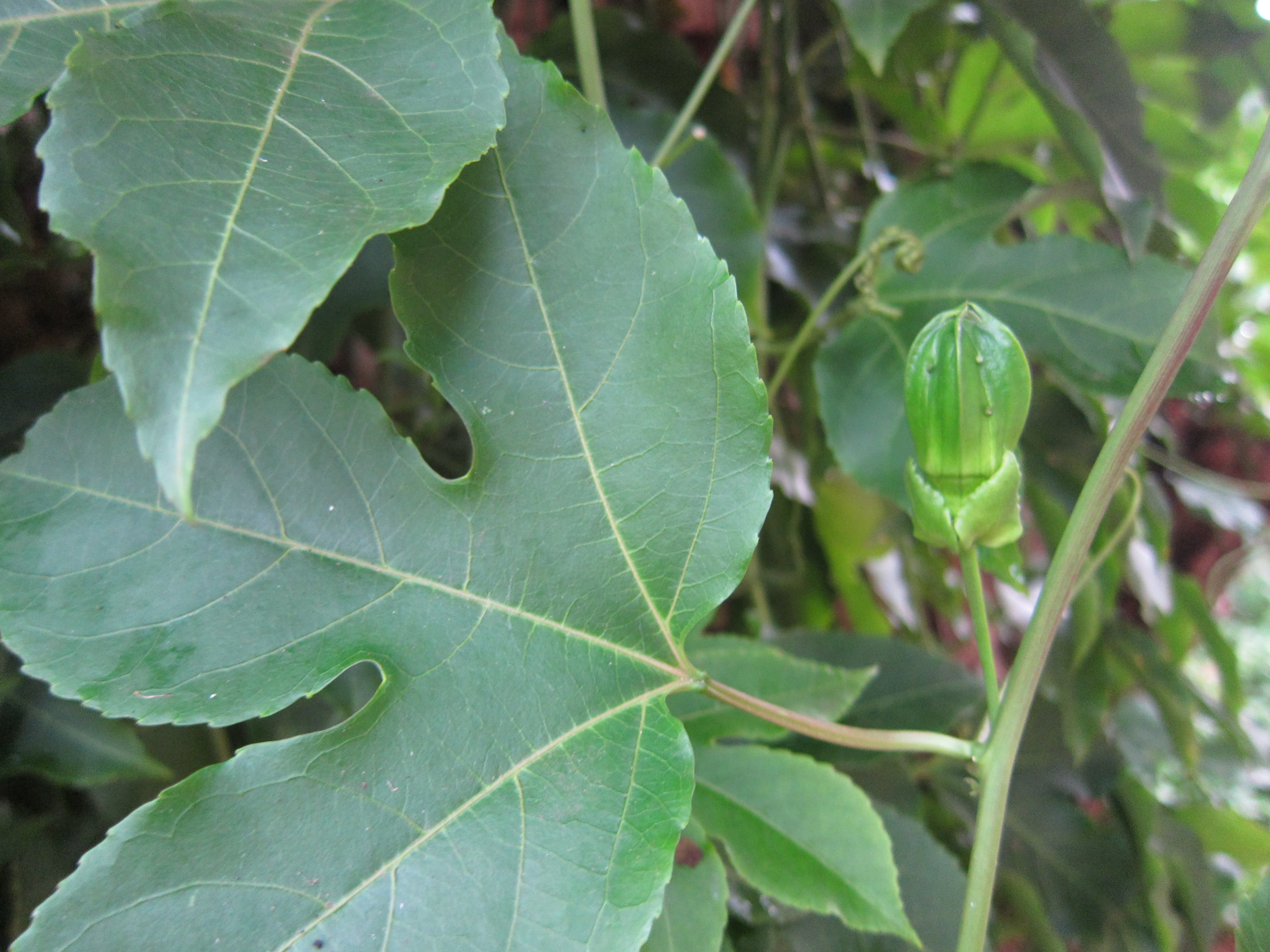 Passion Fruit - പാഷൻ ഫ്രൂട്ട്